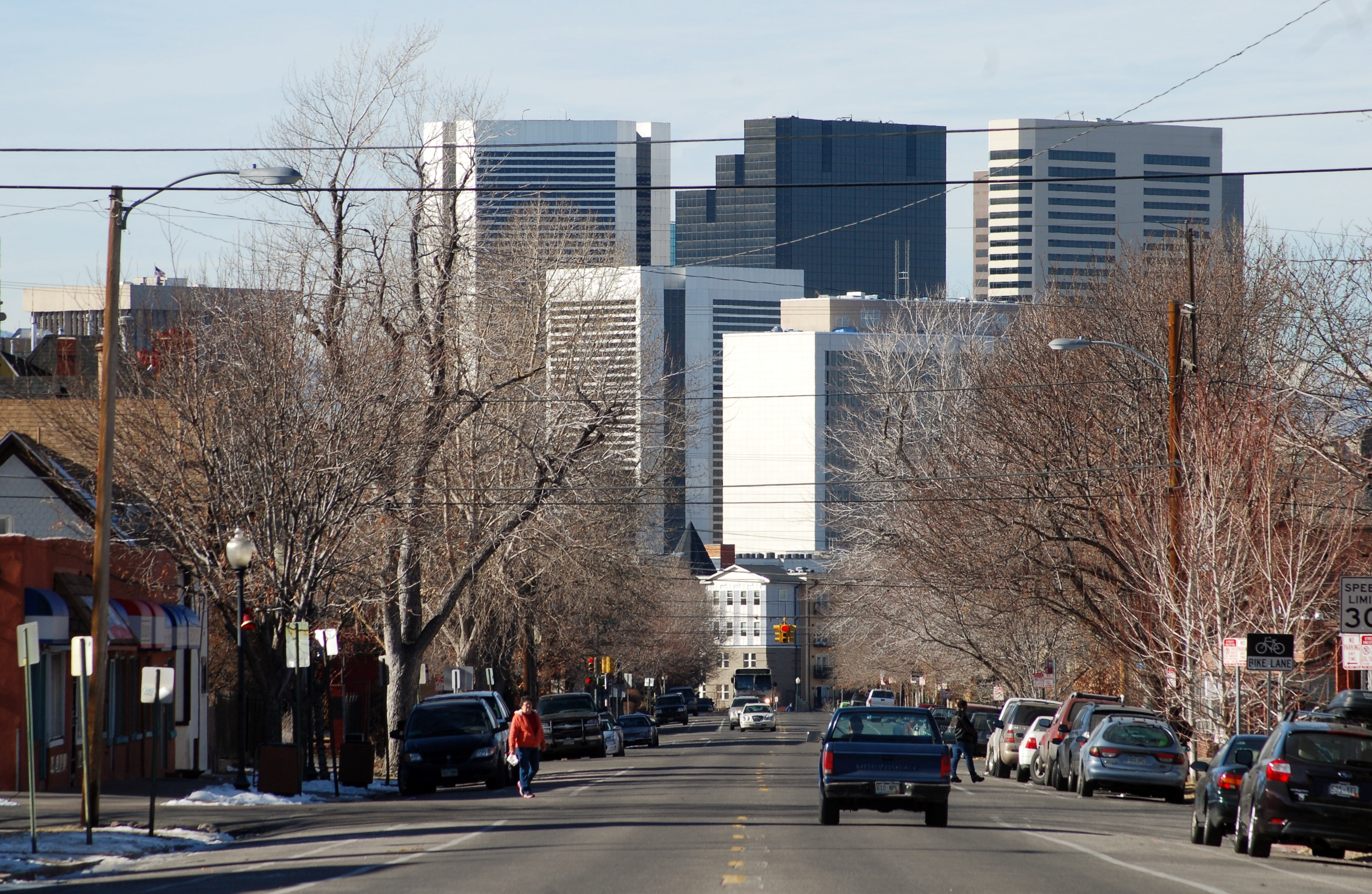 This is a shot looking west down 22nd Street in City Park West, Denver, CO. I wanted to show the proximity of this neighborhood to downtown Denver.